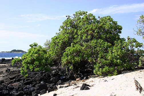 Tournefortia argentia, Caroline Islands